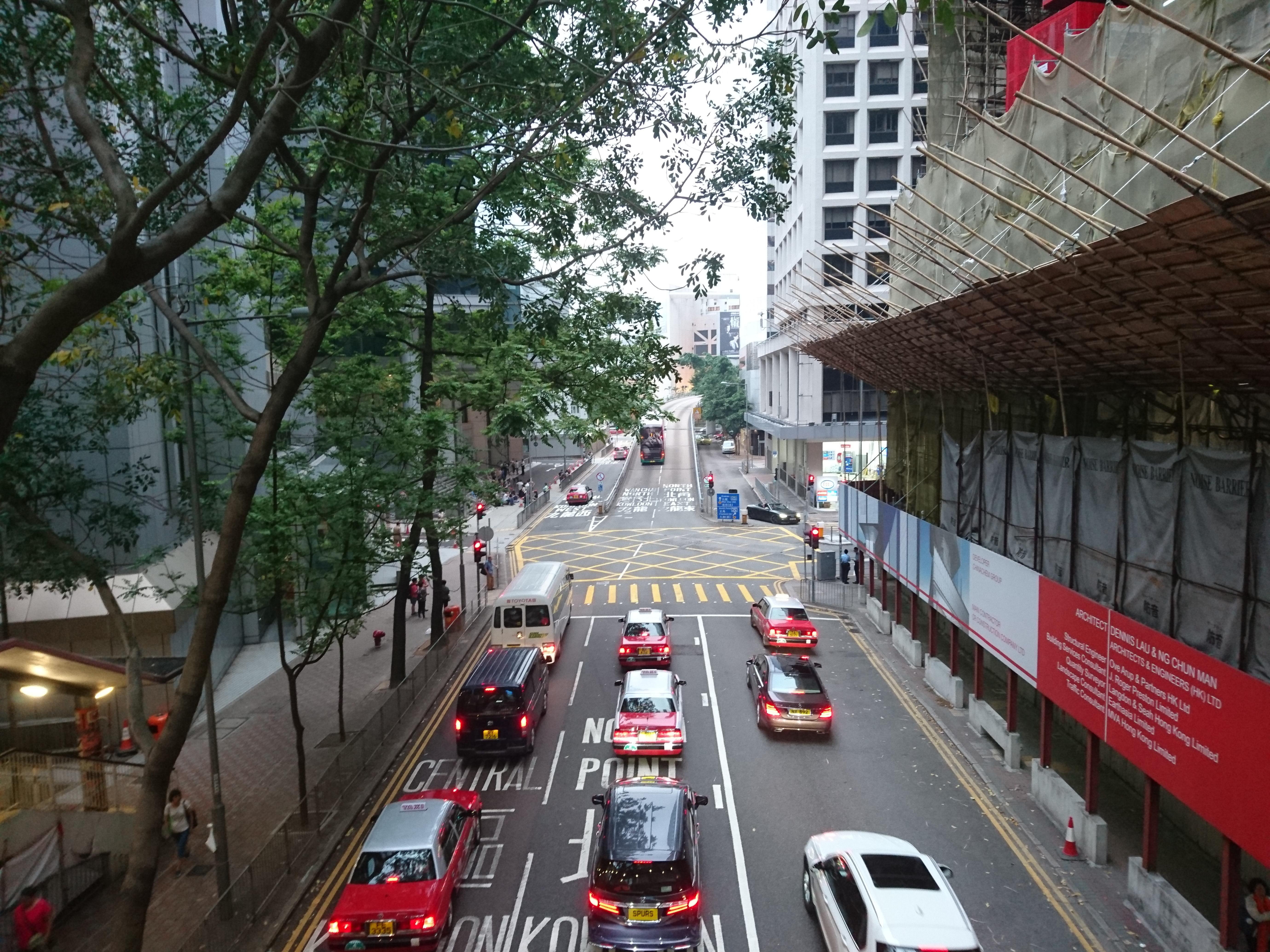 Arsenal Street near Lockhart Road